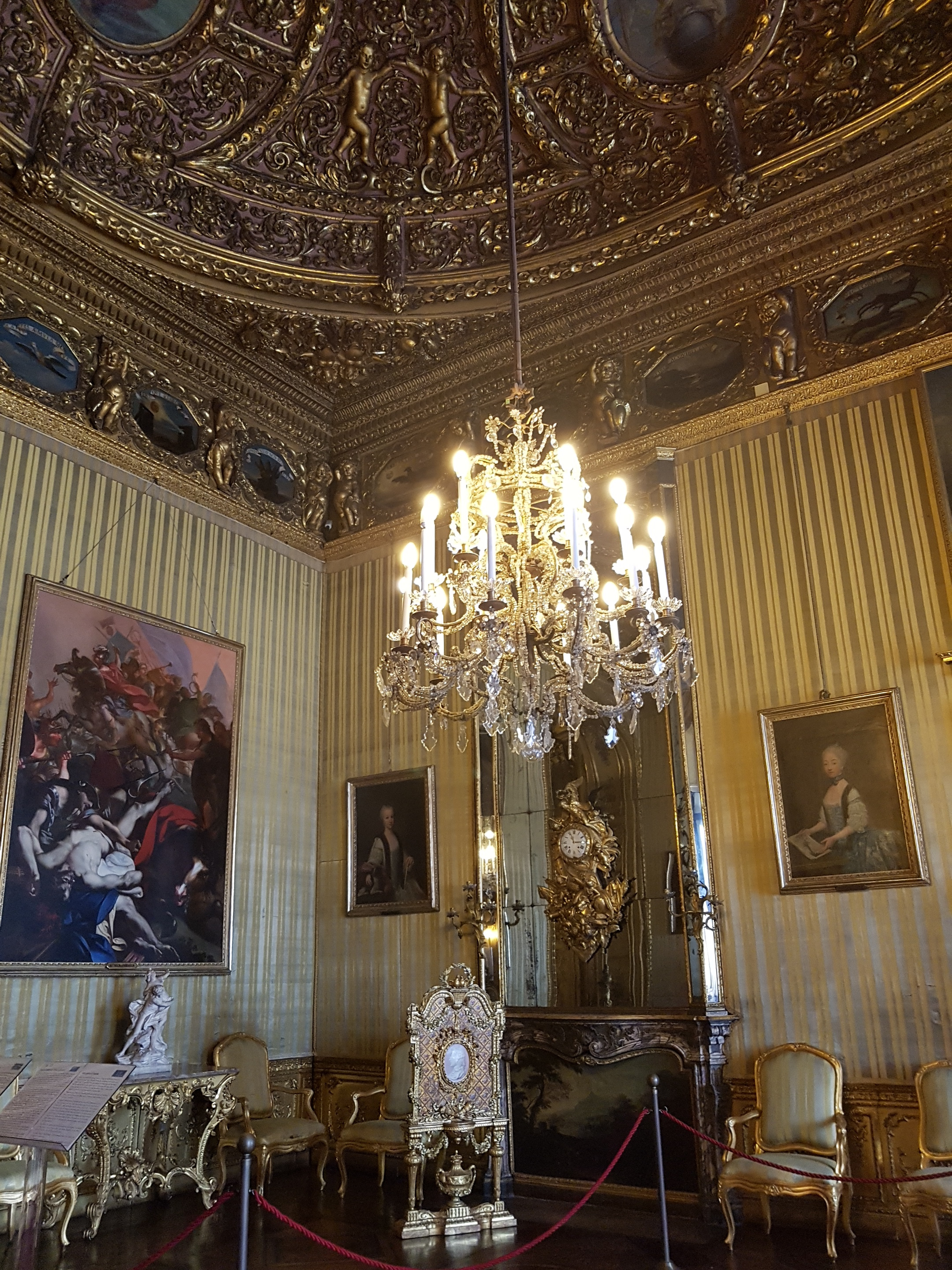 First floor:Breakfast Hall, royal Palace of Turin, Northern Italy